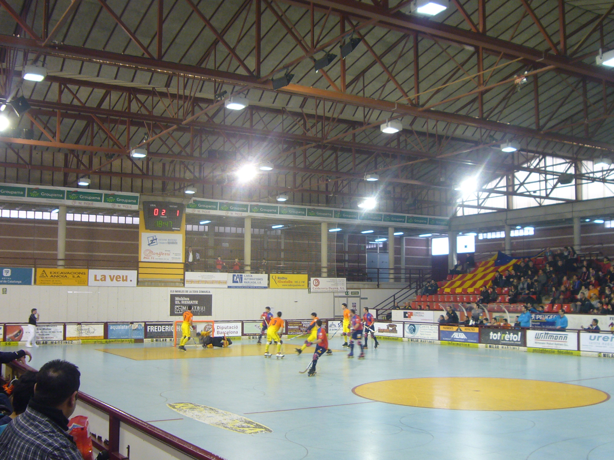 Roller hockey match Igualada - FC Barcelona, in Les Comes, Igualada, Catalonia